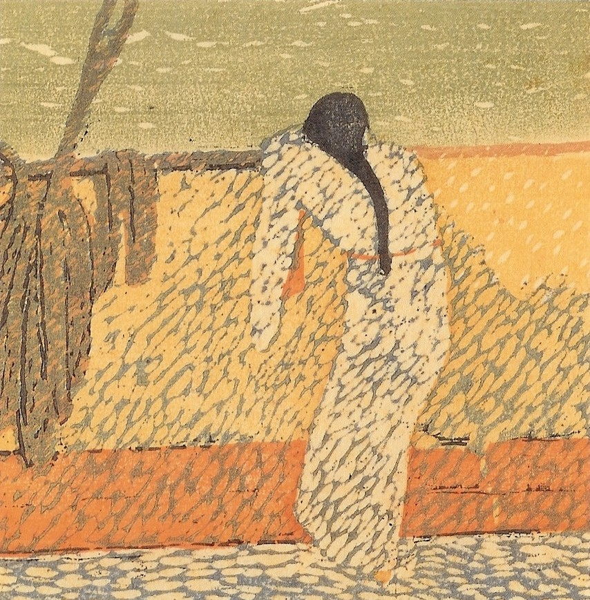 Yamamoto Kanae Woodcut